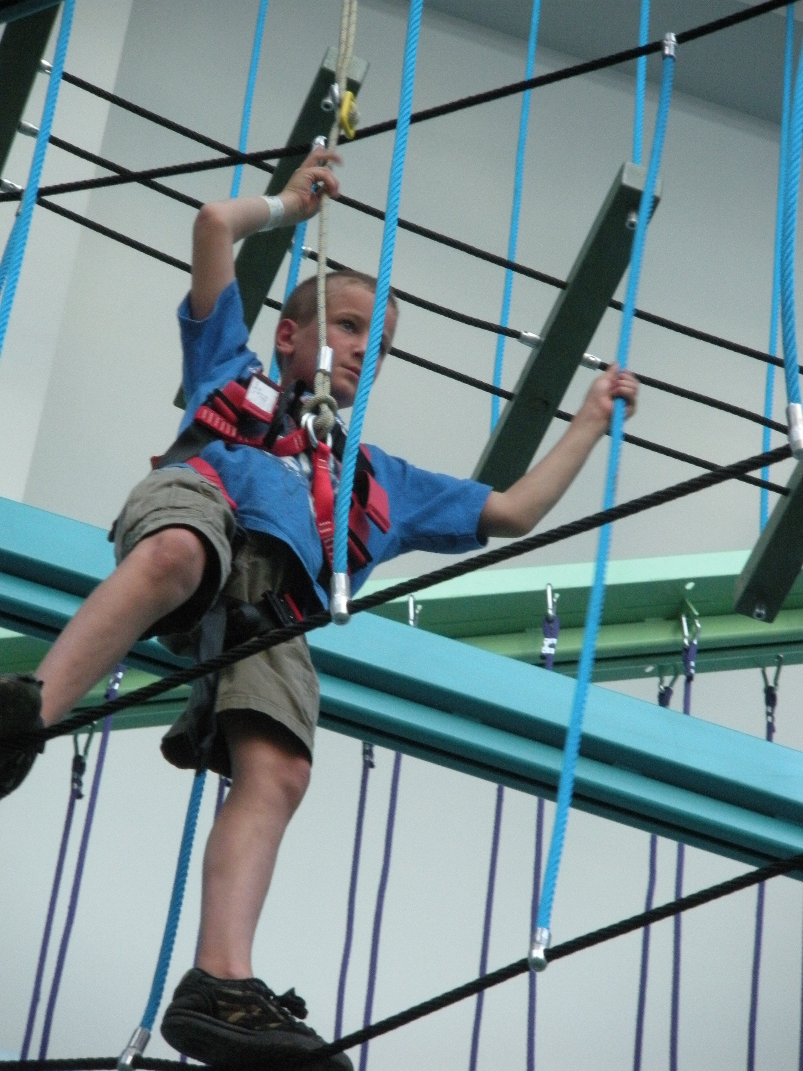 The Ghastly Gangplank Sky Trail ropes course at Nick Universe in the Mall of America in Bloomington, Minnesota. The ride was manufactured by Ropes Courses, Inc.